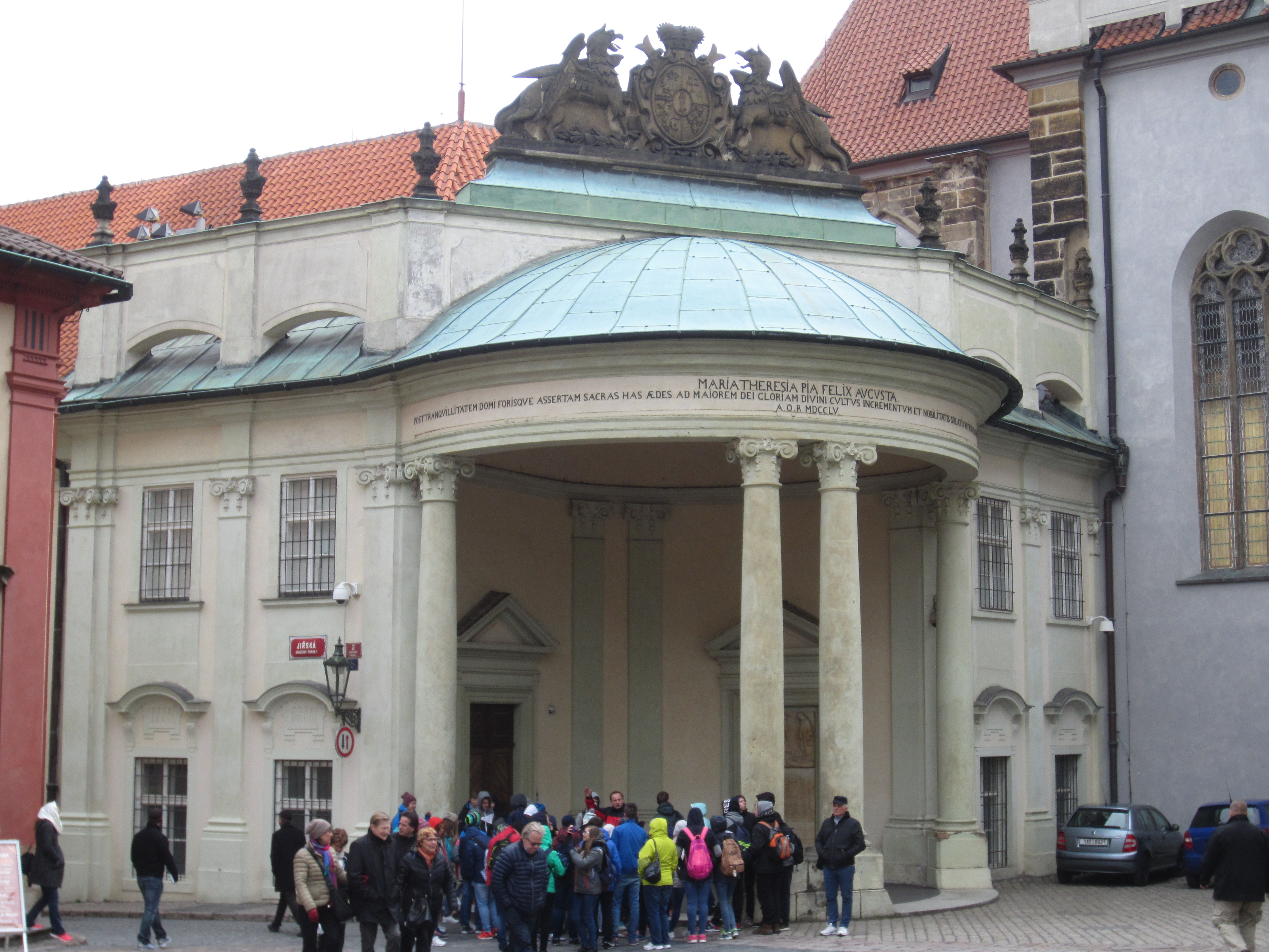 Prague, Czech Republic, April 2016